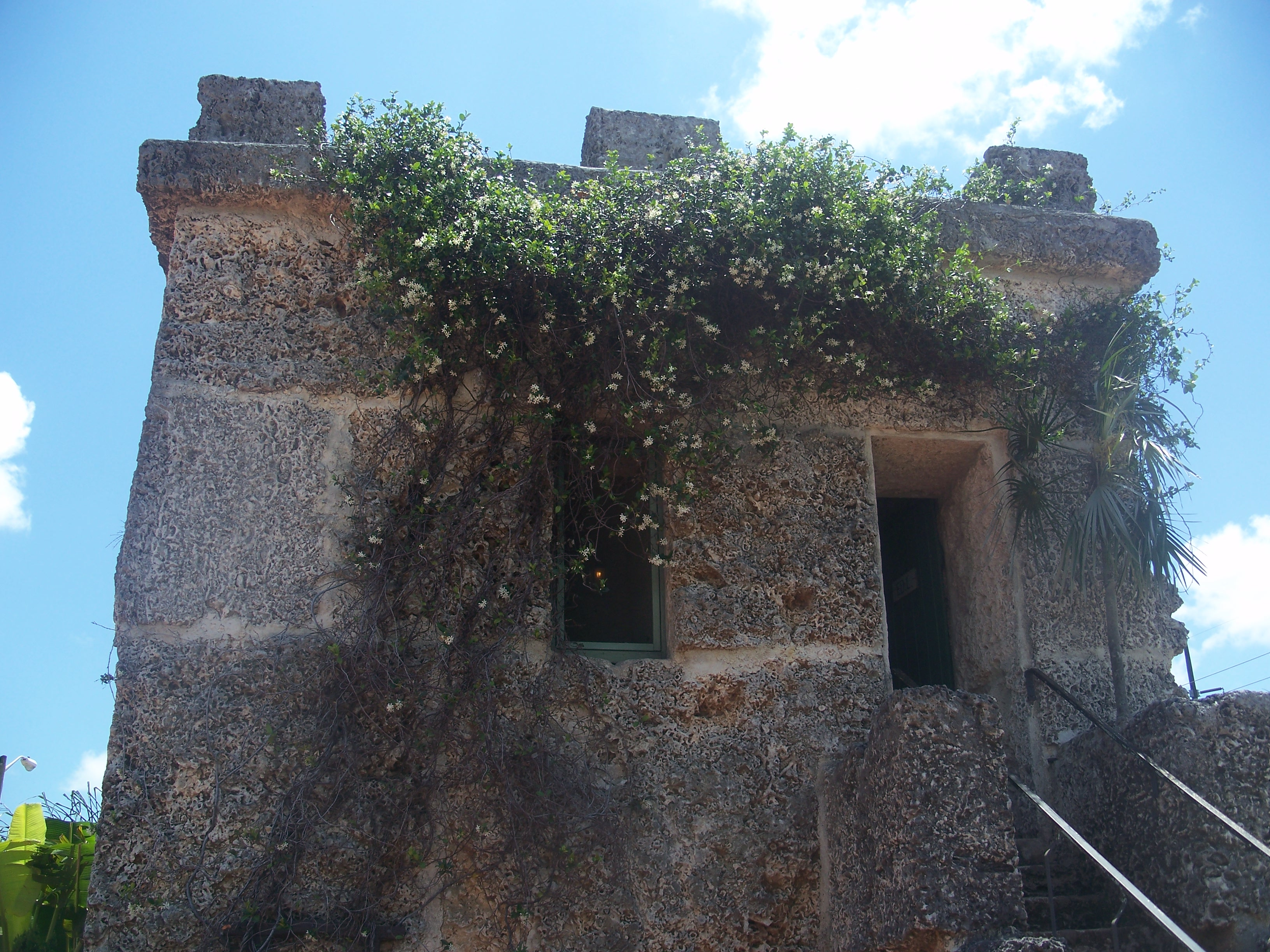 Homestead, Florida: Coral Castle: Living quarters